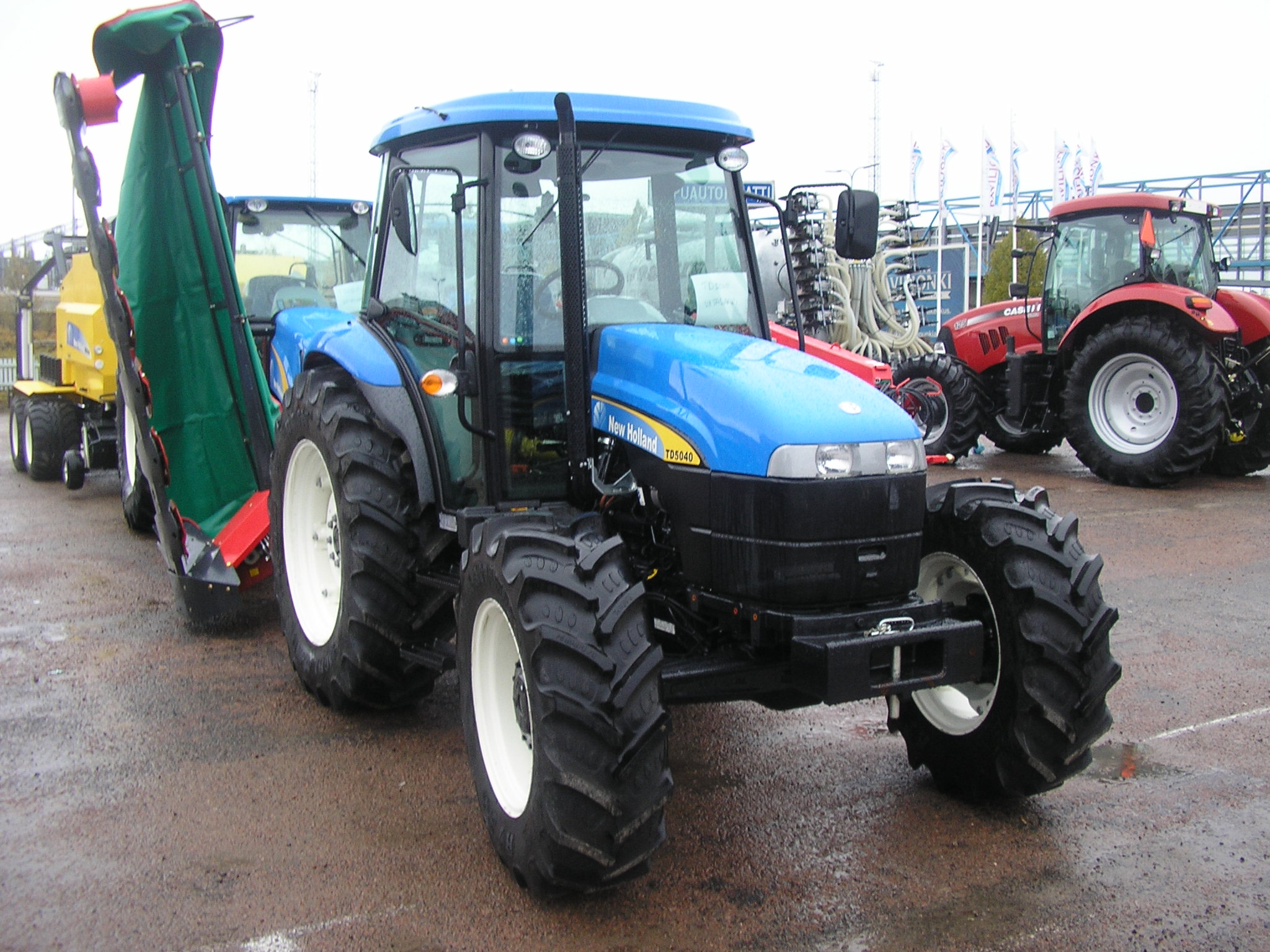 New Holland TD5040 tractor in Jyväskylä, Finland